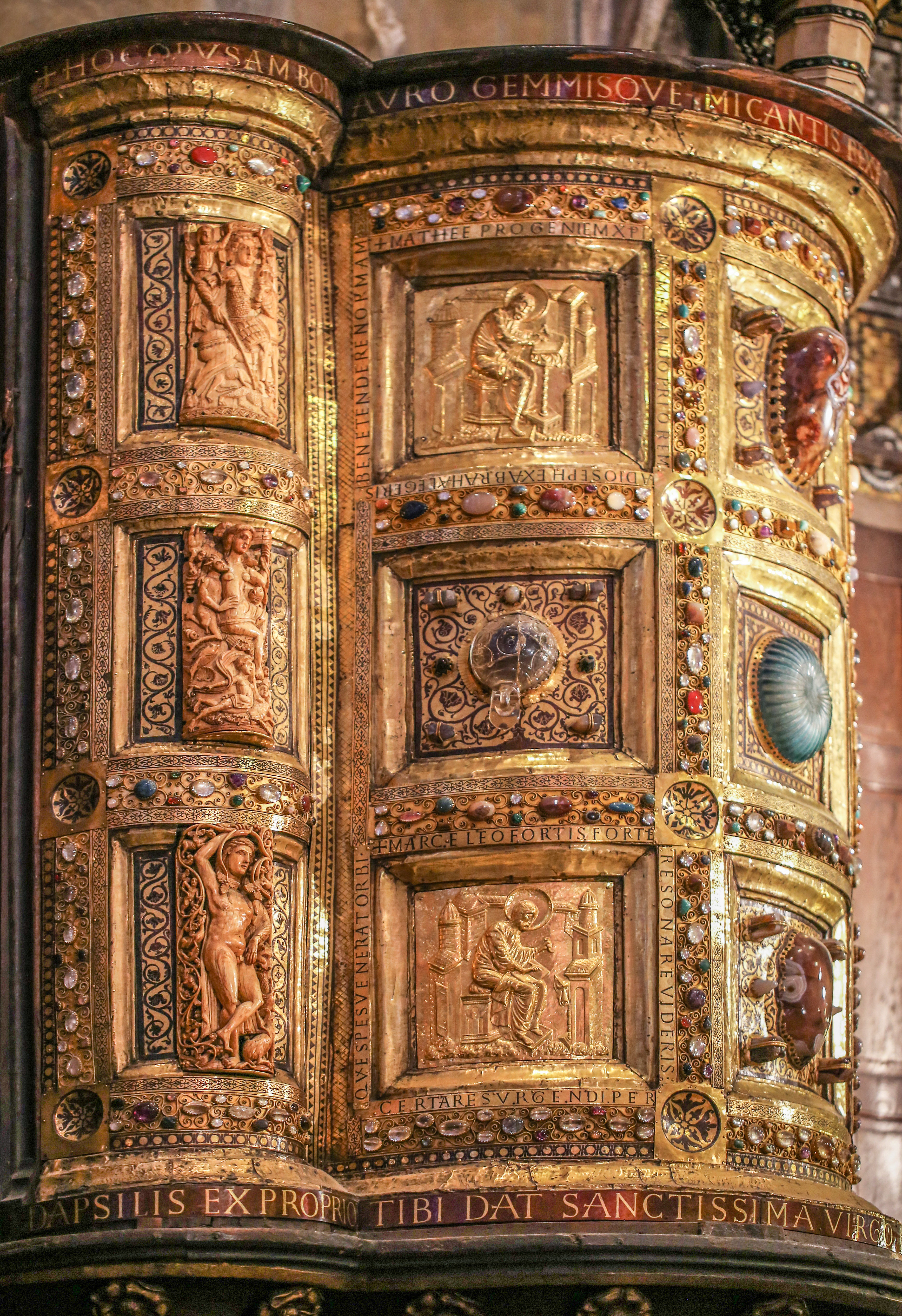 Ambon (11th-century) of Henry II, Holy Roman Emperor. Aachen Cathedral, Germany.